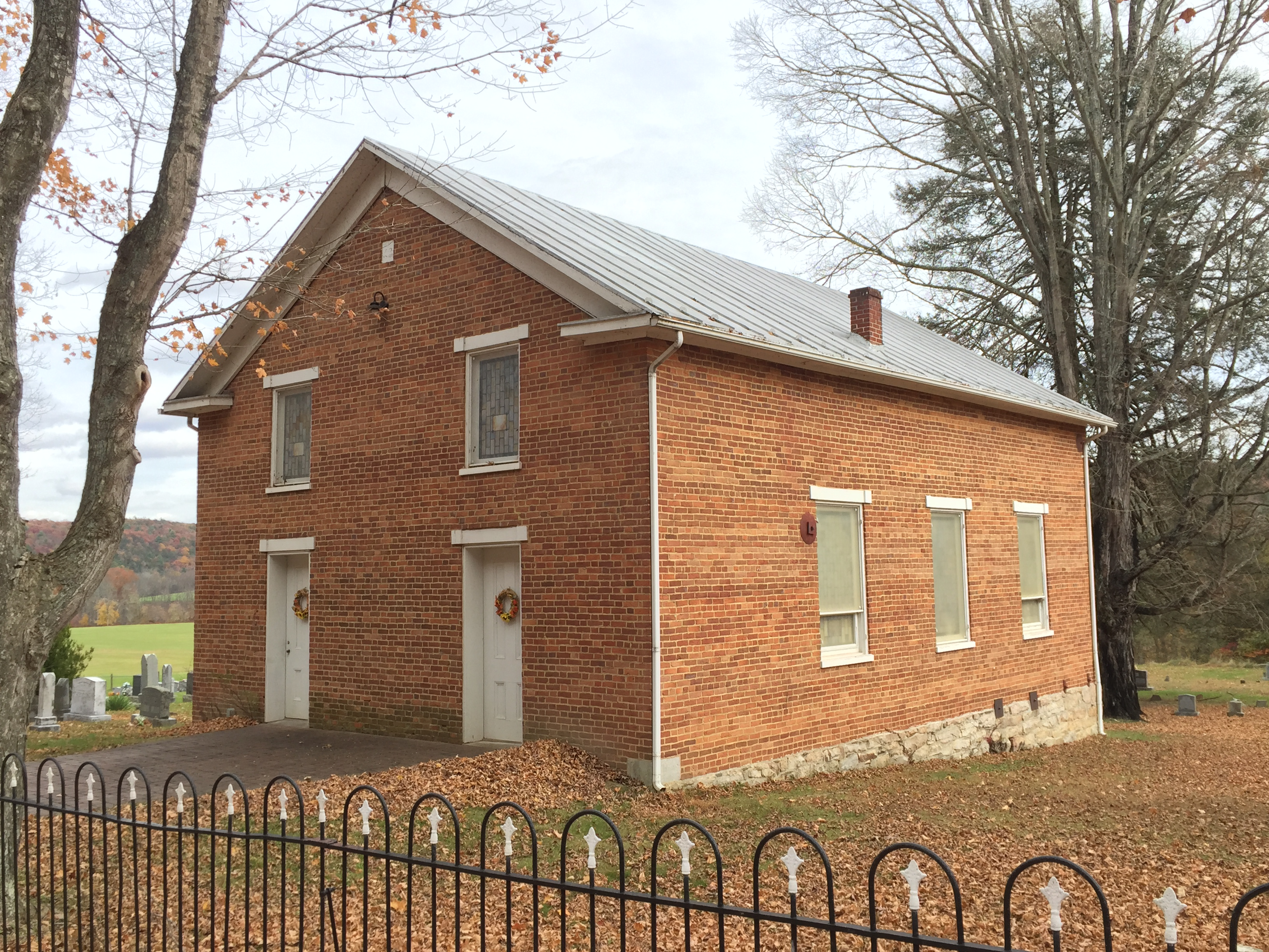 Old Hebron Lutheran Church along West Virginia Route 259 in Intermont, West Virginia, United States. Photographed by Justin A. Wilcox on October 25, 2015.